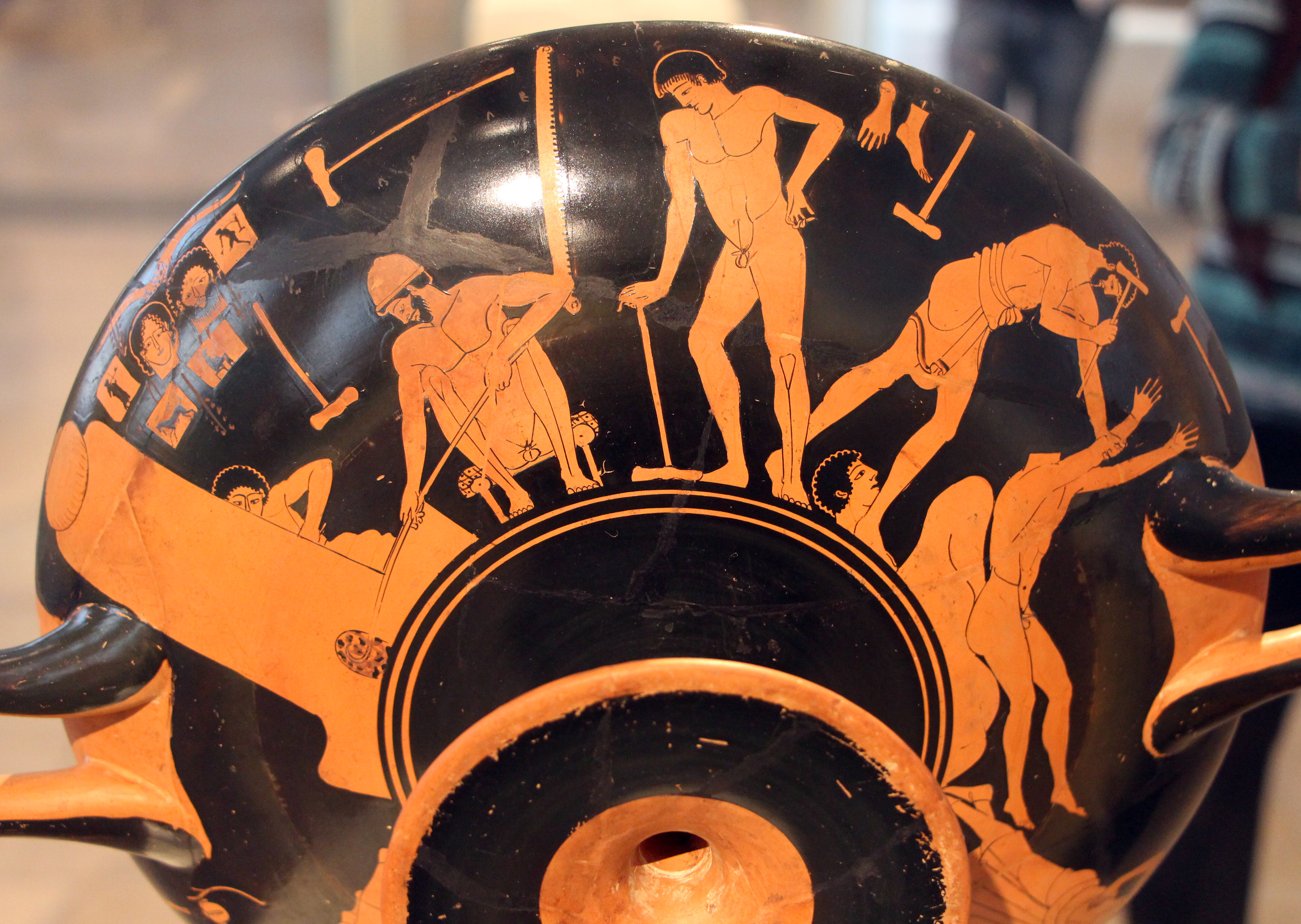 Ancient Greek pottery in the Antikensammlung Berlin